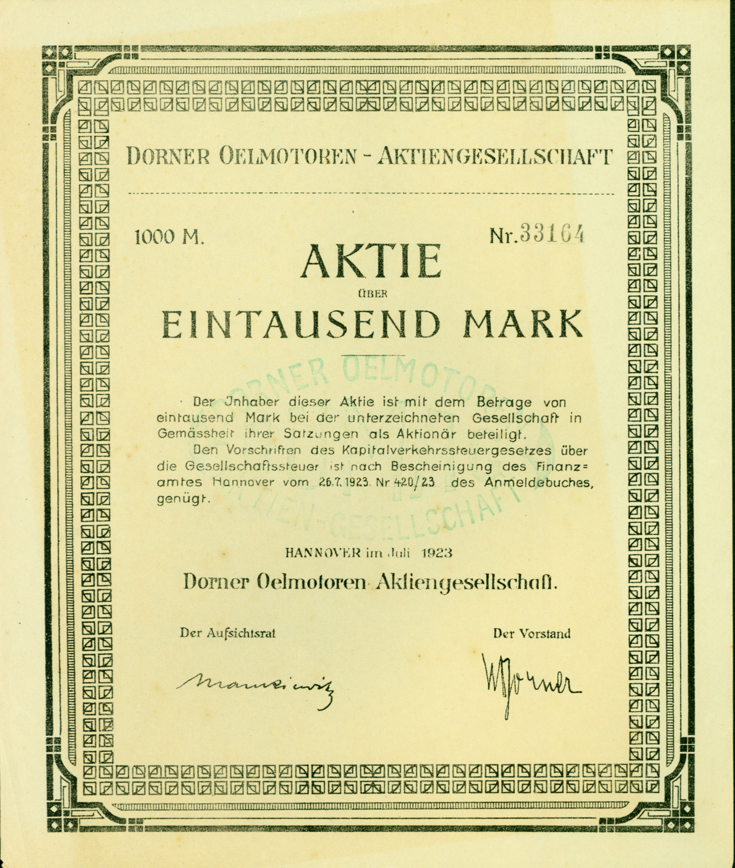 Share of the Dorner Oelmotoren AG, issued 1. July 1923